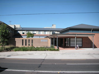 Croydon health centre, Liverpool Rd, Croydon. Built on the site of the former Western Suburbs Hospital, the Health centre is primarily an aged care facility with some additional community health facilities.